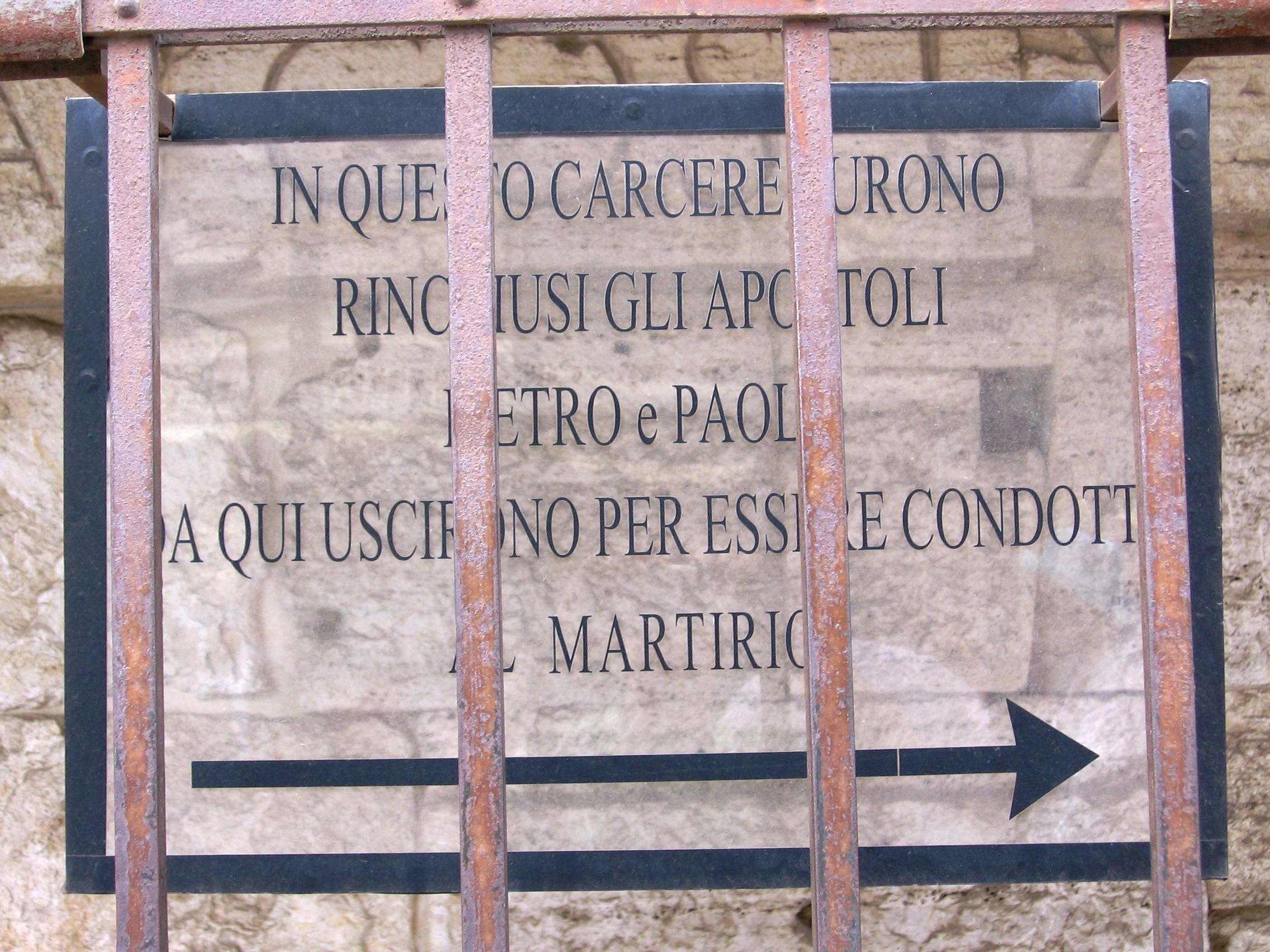 entrance to prison tablet